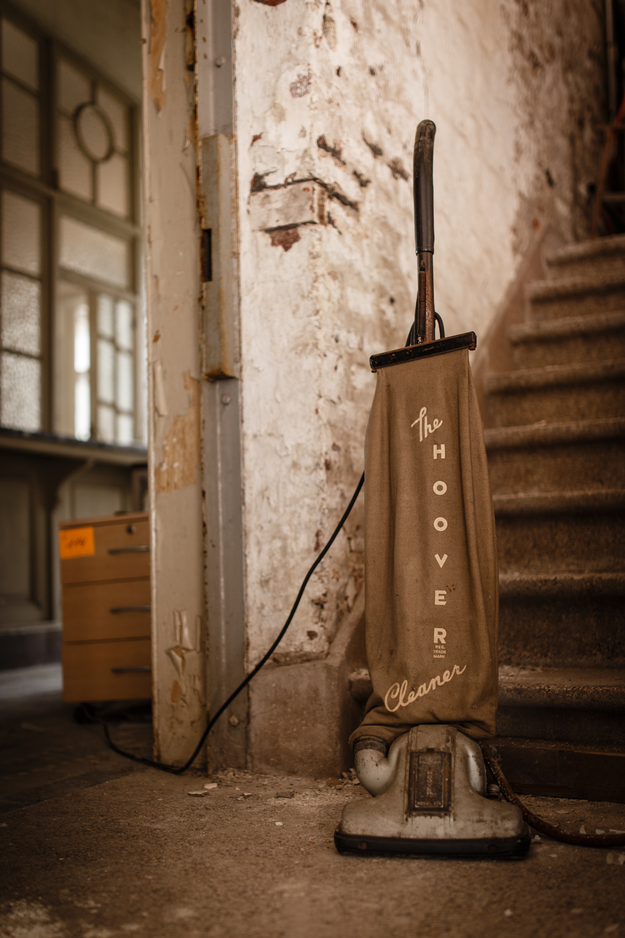 Historic Hoover Cleaner